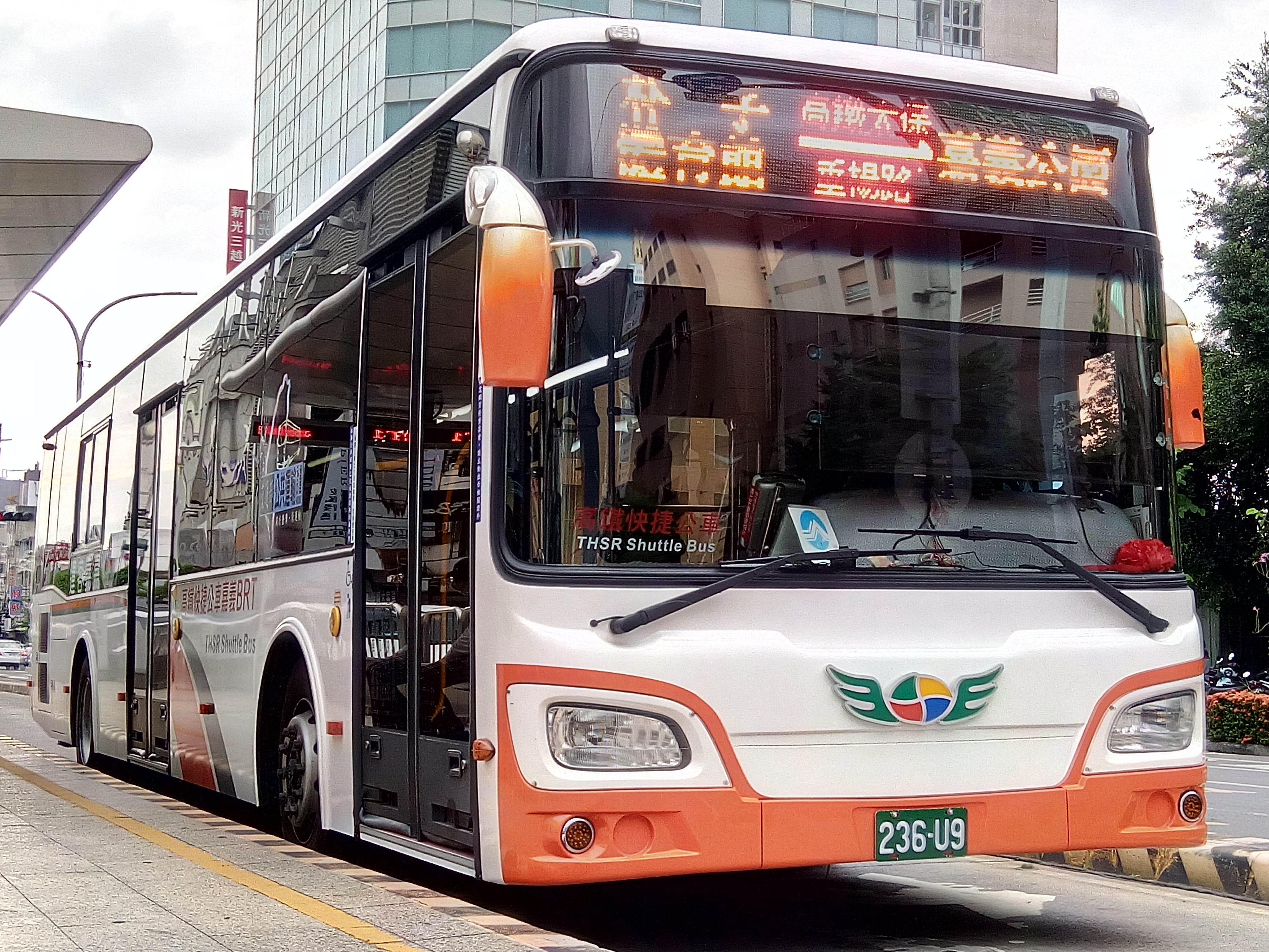 Chiayi BRT 236-U9